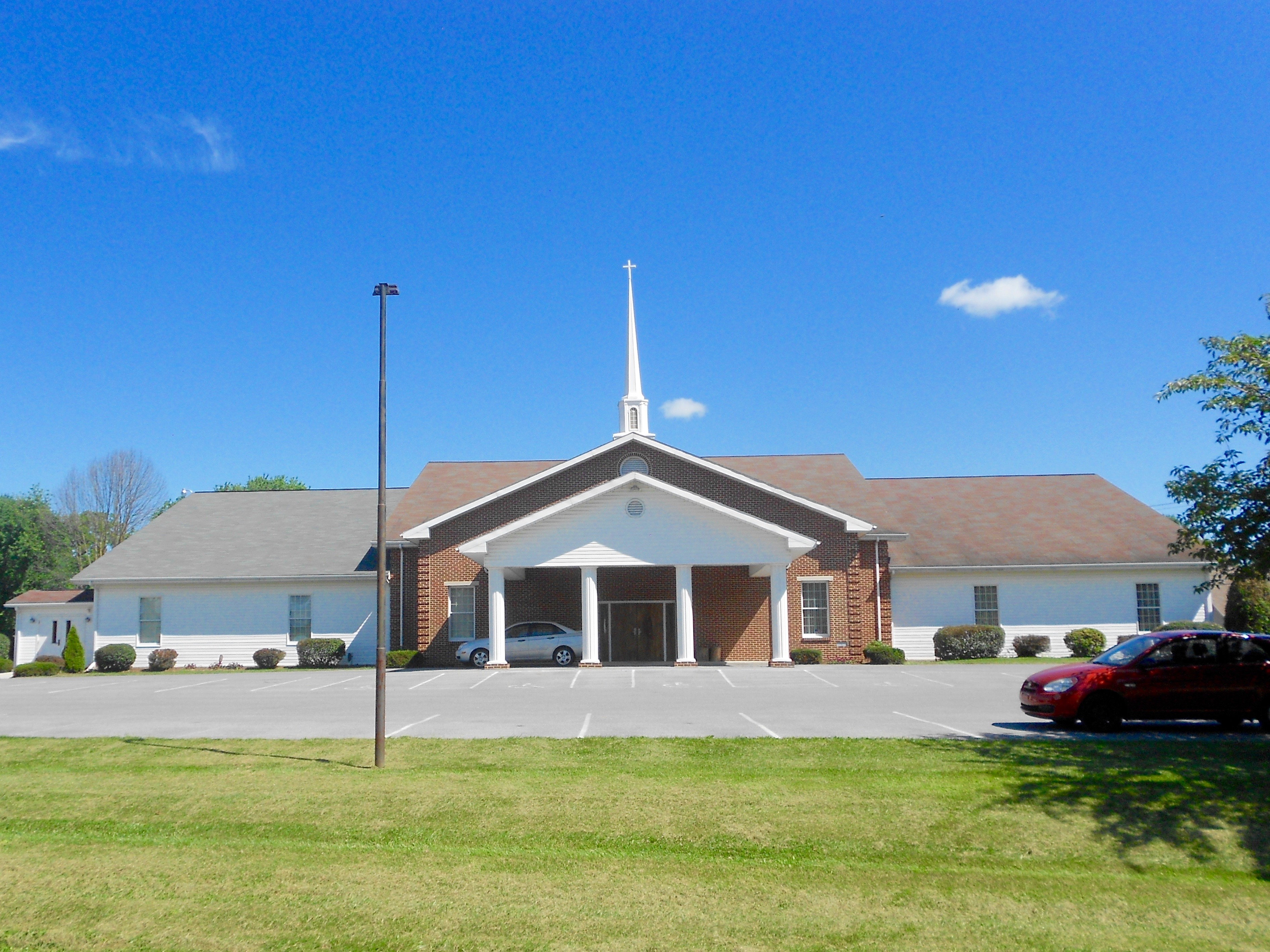 Newville Assembly of God, a couple of miles south of Newville, Cumberland County, Pennsylvania